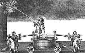 I downloaded this image from which has no specific information about it at all. It's also reprinted in Neil Hanson, The Dreadful Judgement: The True Story of the Great Fire of London, 1666, which supplies the facts that it's a 17th-century engraving and is kept in the Royal Academy of Art. I'm trying to find out more about the exact age and what it was for. It looks like an ad, as the book version has this legend right across the picture: "These Engins, (which are the best) to quinch great Fire; are made by John Keeling in Black Fryers (after many years Experience) Who also maketh all other sorts of Engine."